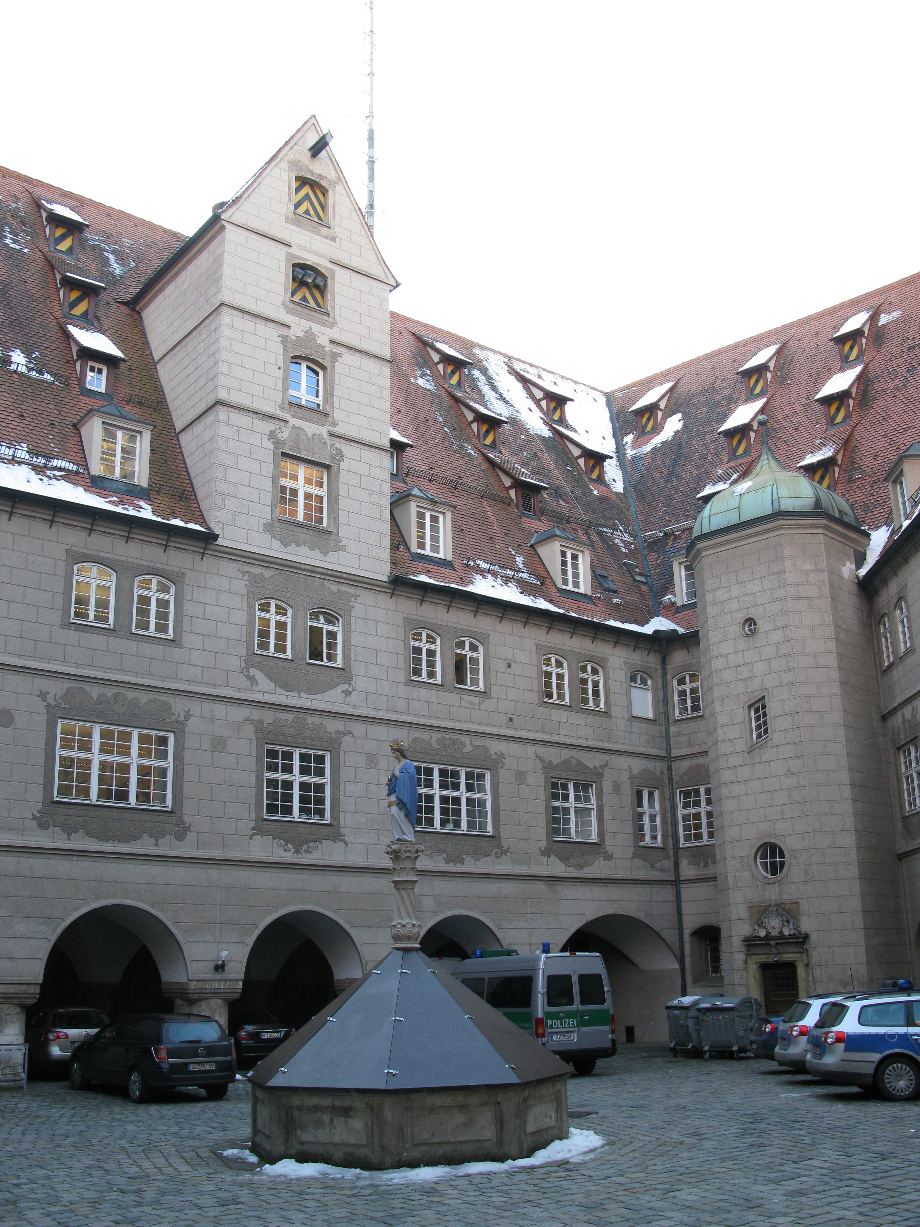 The Neue Bau in the city centre of Ulm. Today the headquarter for the police.